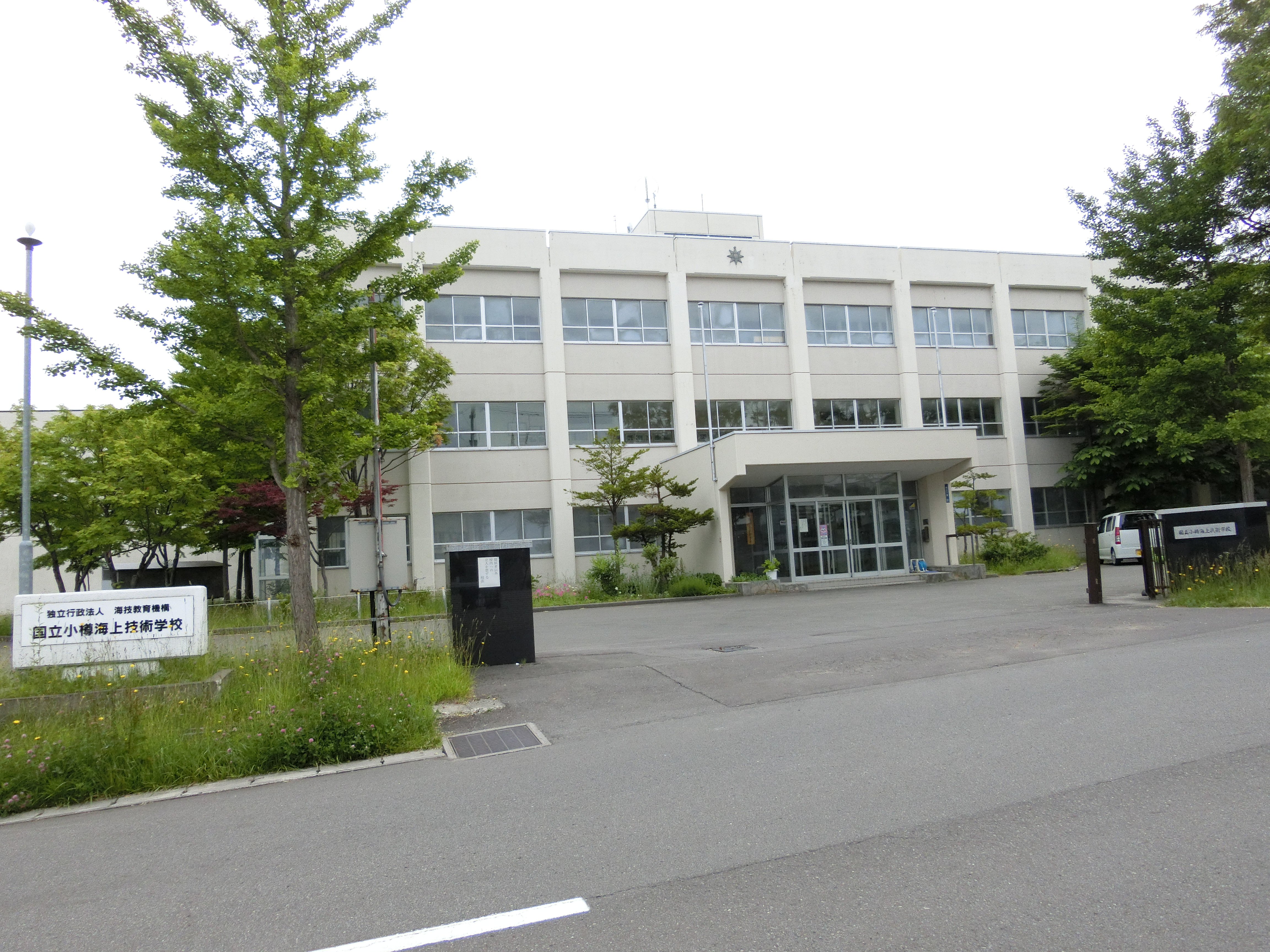 National Otaru Maritime Polytechnical School located in Sakura, Otaru City, Hokkaido